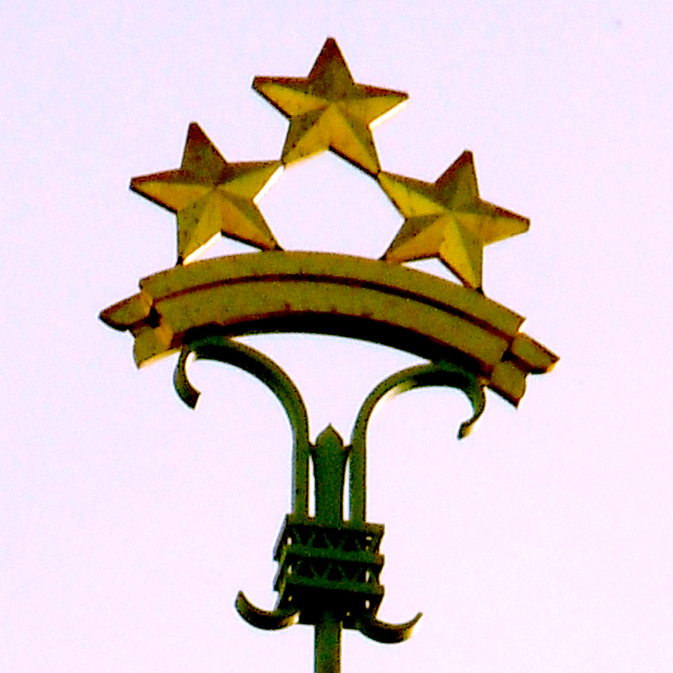 Five-pointed Stars. Riga Castle.